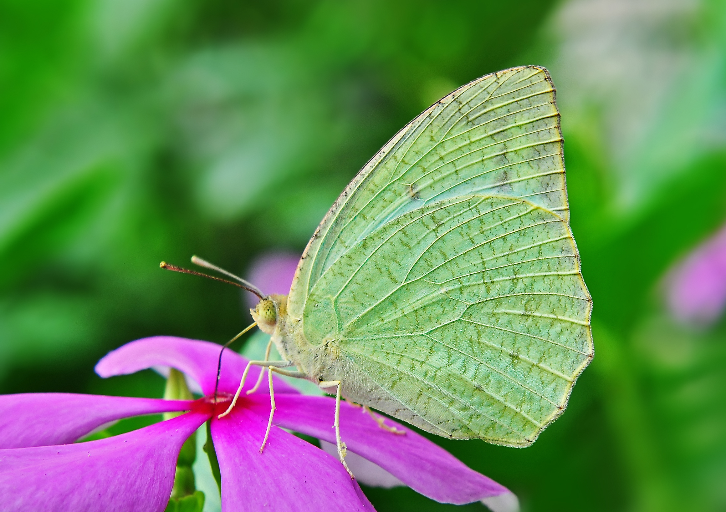 The Mottled Emigrant, Catopsilia pyranthe (male), is a medium sized butterfly of the family Pieridae found in South Asia, Southeast Asia and parts of Australia. Taken at Bardhaman, West Bengal, India.